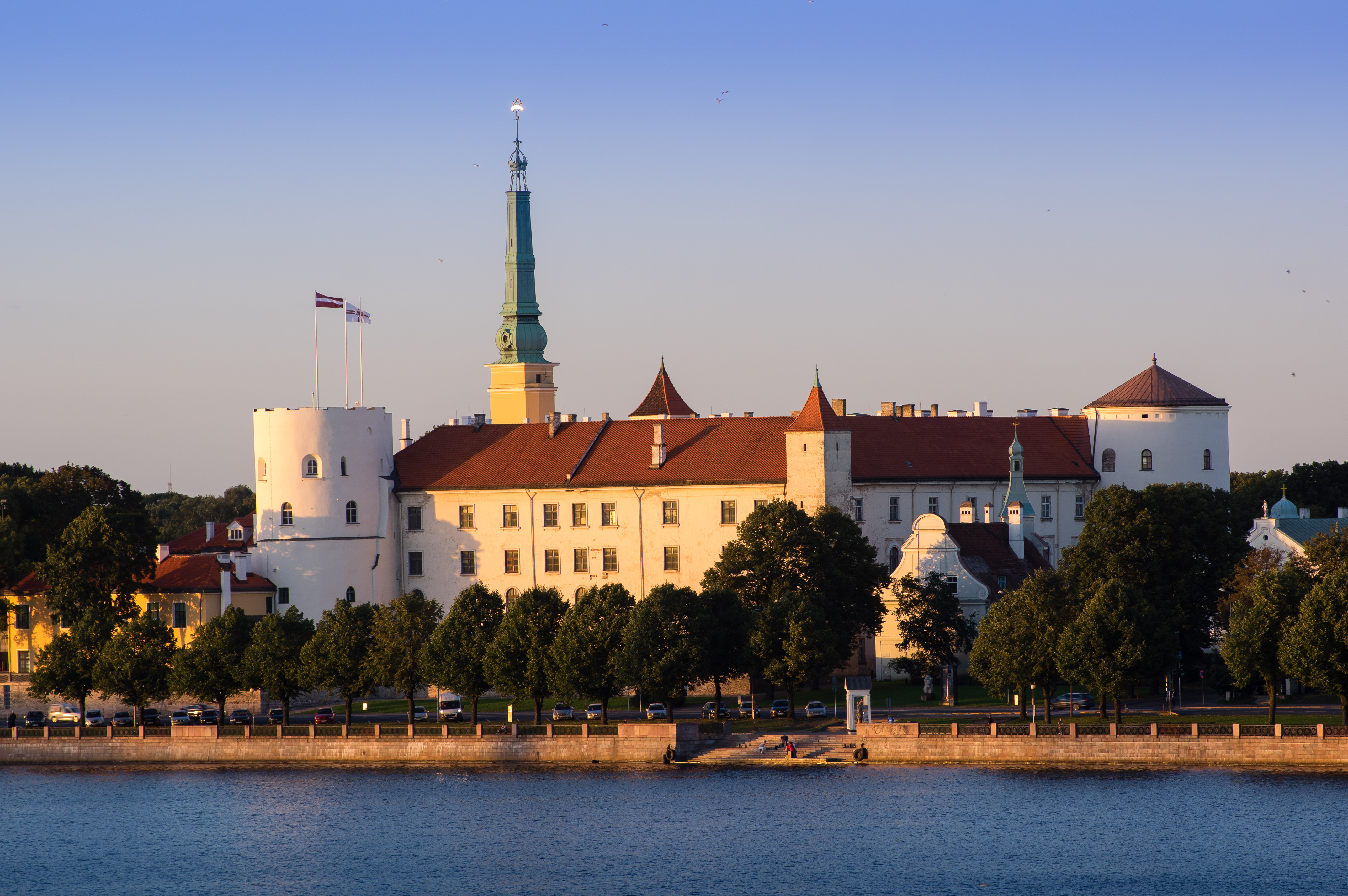 Riga Castle seen across the river Daugava.